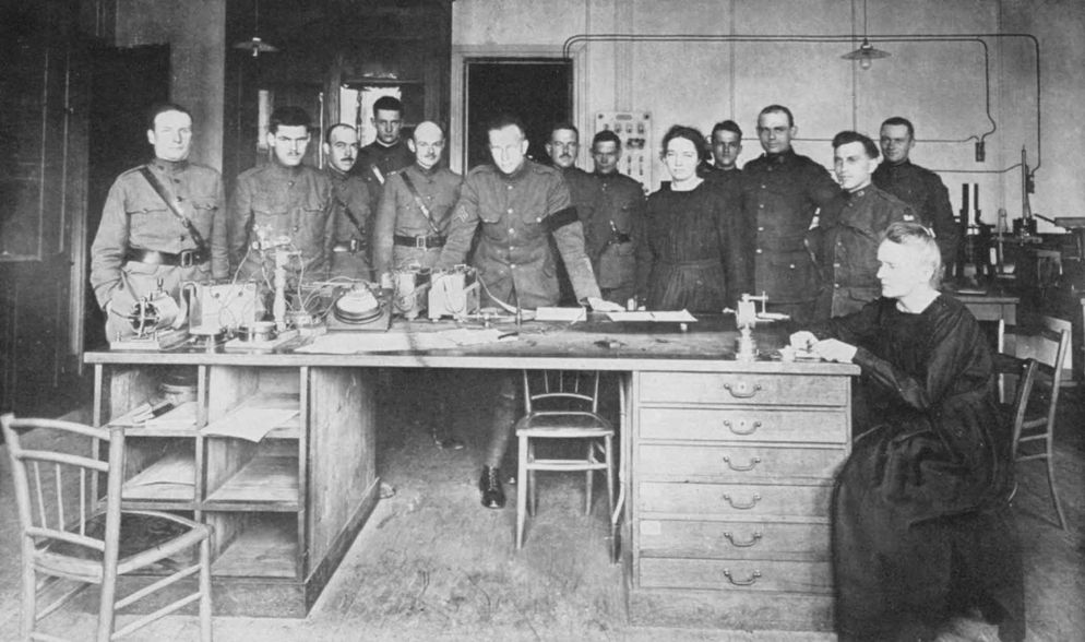 Marie Curie (1867-1934) Polish-born French physicist, and her daughter Irène, with pupils from the American Expeditionary Corps at the Institute of Radium, Paris, in 1919. Curie said that these American officers, who became her students at the Radium Institute in the spring of 1919, also “studied with much zeal the practical exercises directed by my daughter.”